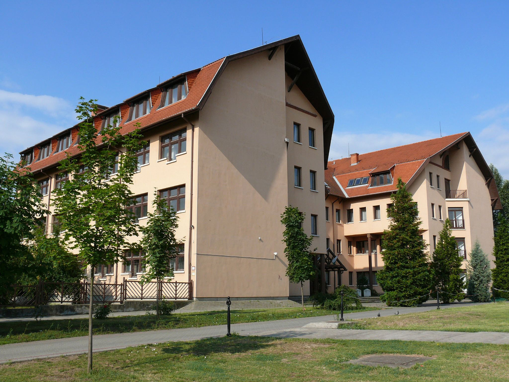 Hostel of the Károly Kisfaludy High-School, Mohács, Hungary